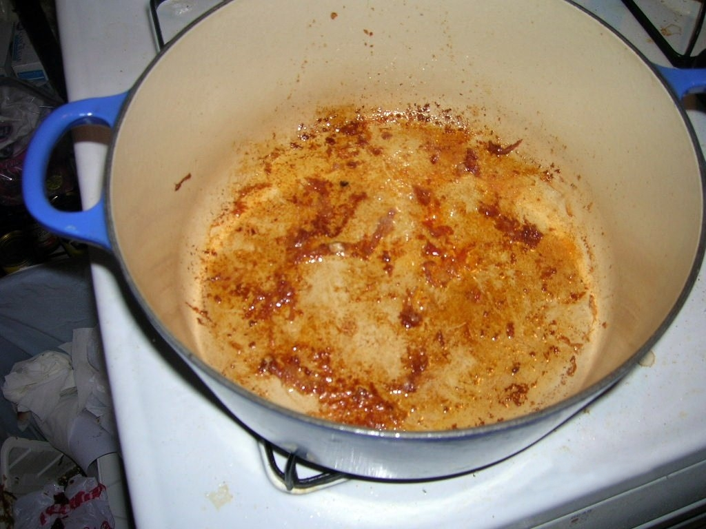 Fond left in a white enamel pot after browning pork. Photo taken in the United States with a Nikon E5600 digital camera.